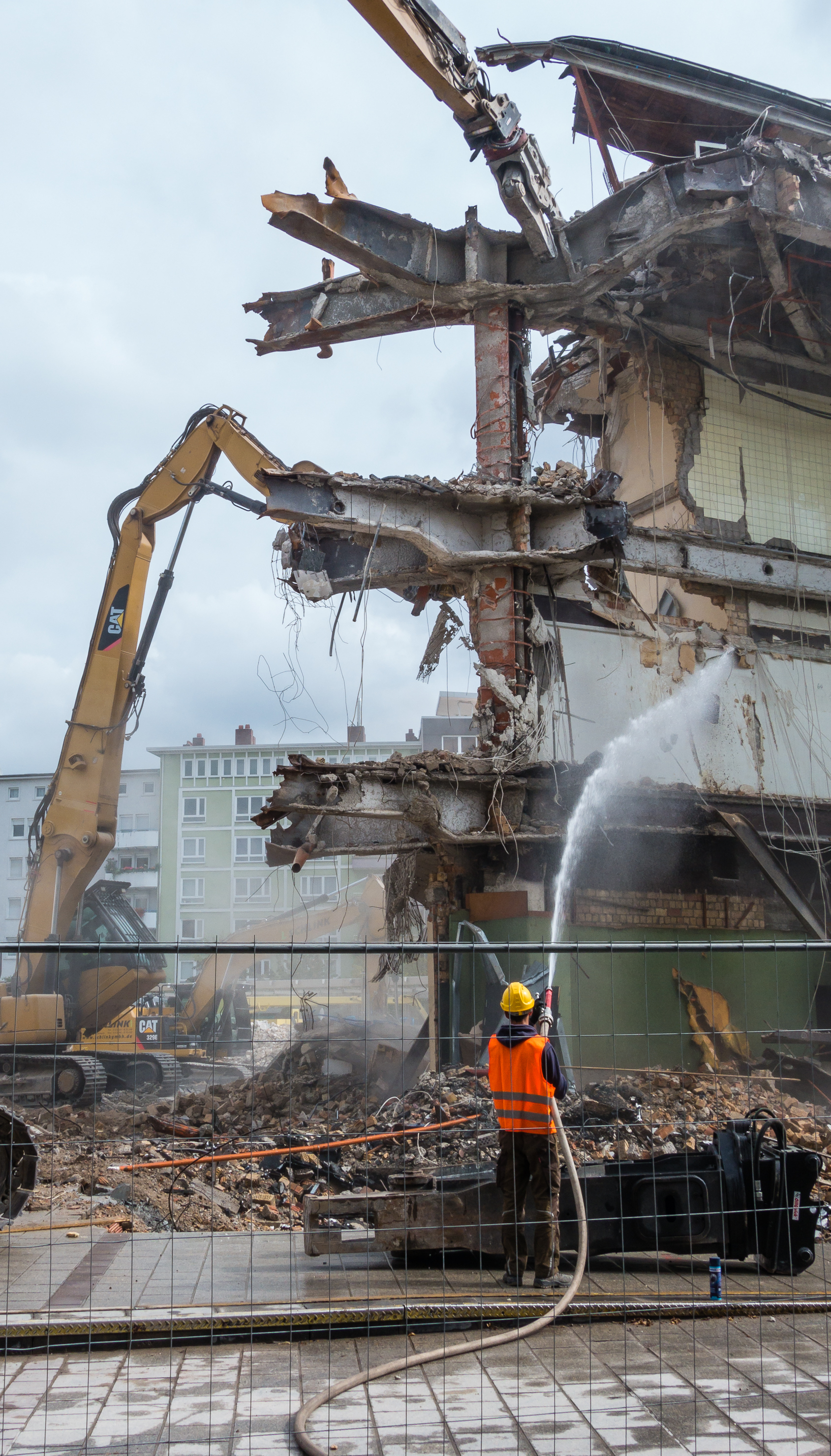 Construction worker squirts water for the reduction of the formation of dust at demolition work